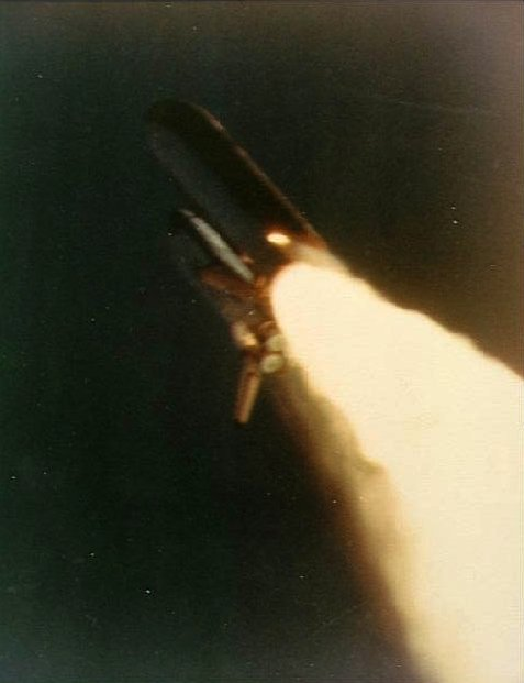 This 70mm still photograph of the 51-L launch was taken from Camera Pad 10 north of Launch complex 39-B approximately 58.32 seconds after launch. The photograph shows an unusual plume in the lower part of the right hand solid rocket booster (SRB) (026); Photograph of the 51-L launch at approximately 58.82 seconds after launch shows an unusual plume in the lower part of the right hand SRB (027); Photograph of the 51-L launch at approximately 1 minute, 13.14 seconds after launch showing a plume in the lower part of the right hand SRB (028).